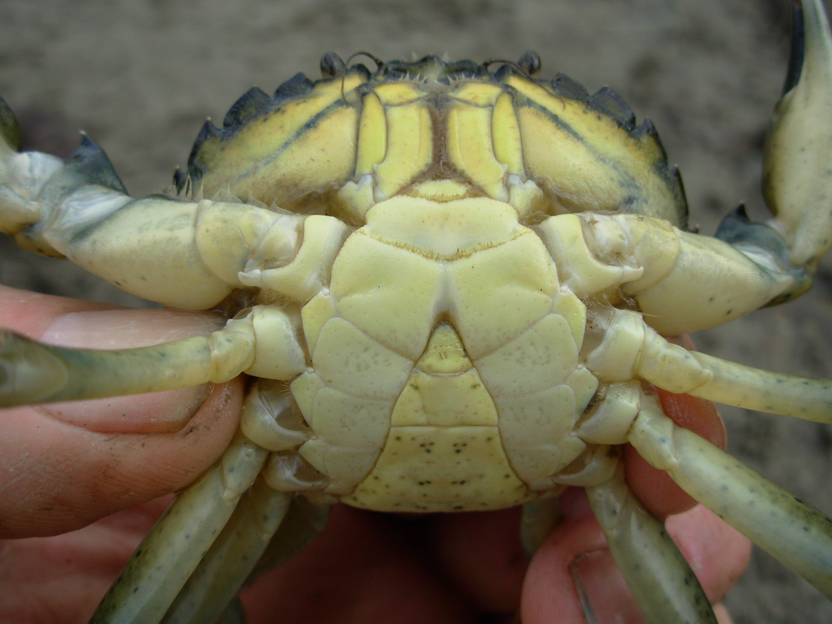 Carcinus maenas. Green mâle, ventral side.